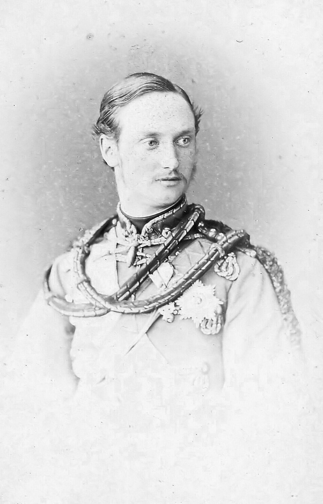 Frederik VIII of Denmark